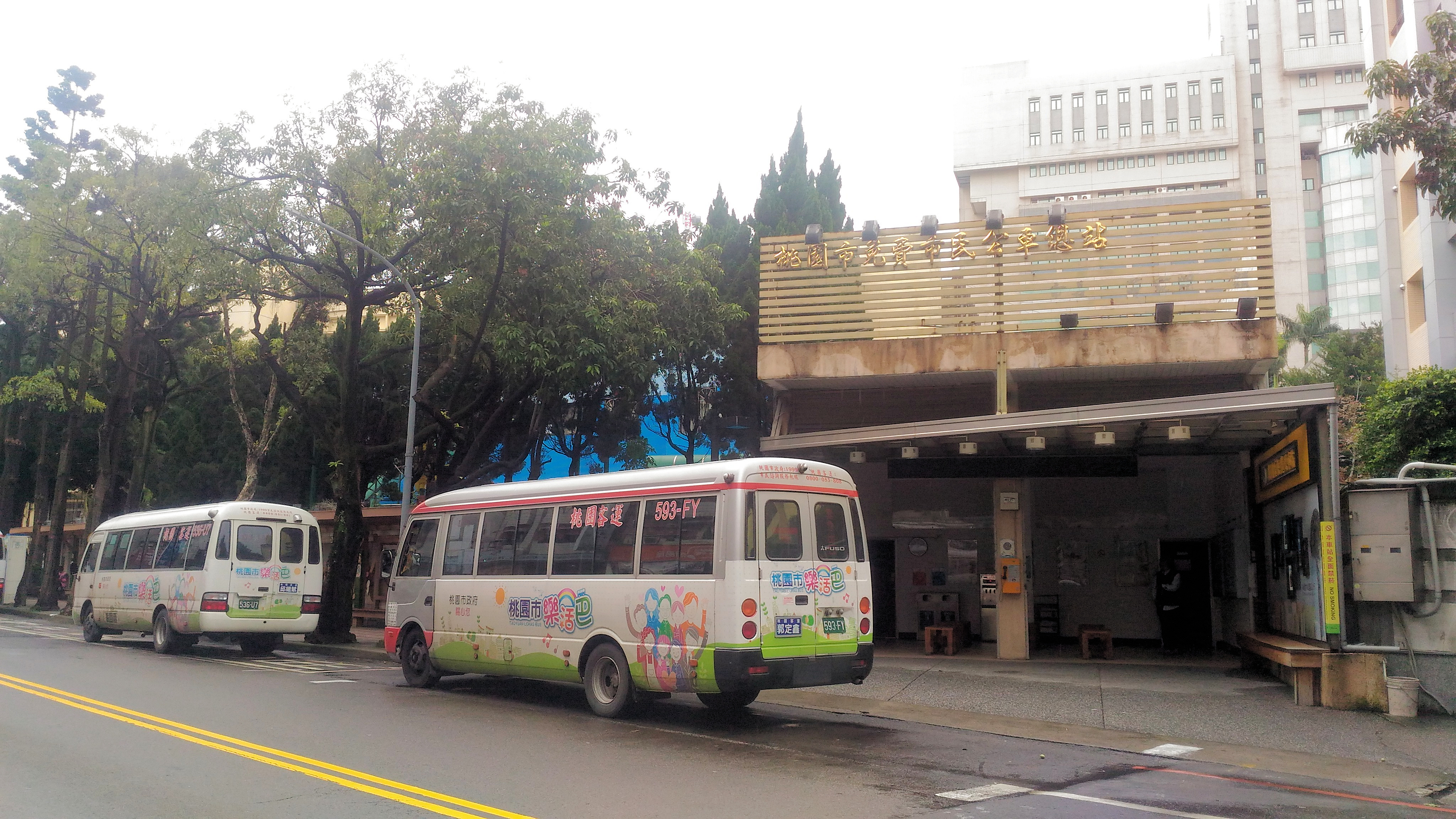 Taoyuan Citizen Free Bus Terminal, taken near High Class Kindergarten Taoyuan Branch.